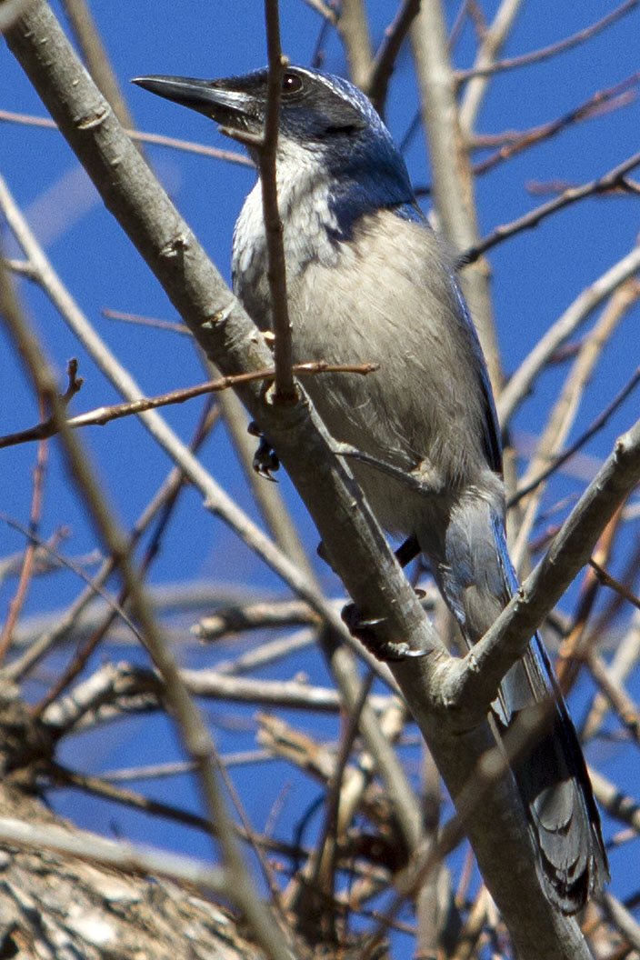 Island Scrub Jay (Aphelocoma insularis) photographed by Devon Pike in January 2011 on Santa Cruz Island, California.